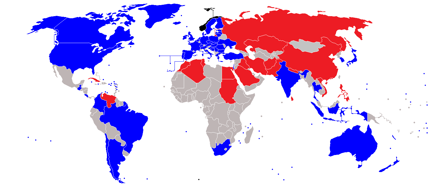 2010 Nobel Peace Prize boycott Attended Boycotted Norway